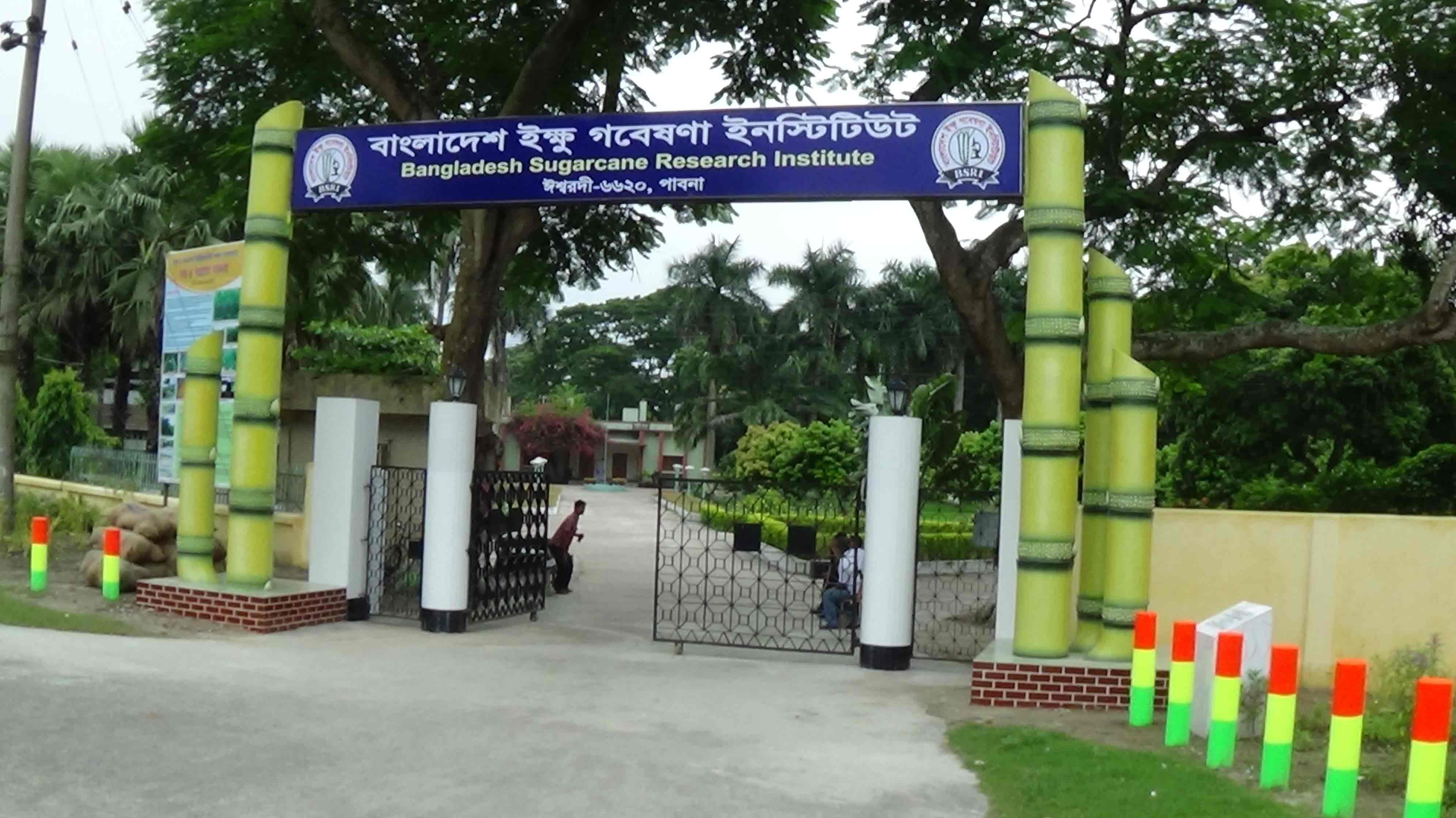 Bangladesh Sugarcane Research Institute (BSRI) is solely responsible for research and extension of the technology related to sugar crops such as sugarcane, sugarbeet, date palm, palmyra palm, nipa palm and stevia